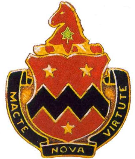 This file is from a US Government website ( Also from that website: Design approved February 11, 1921 The dancette fess is for the hills and mountains with which the regiment's history is connected (King's Mountain, North Carolina; Hill 304 near Verdun; Hill 295 north of Septsarges, France; the Landskrone, Rhineland; and Mt. Rainer, Washington). The black is for the battle losses. The three stars are for three major operations of World War I in which the regiment took part. The horse's head indicates a mounted regiment, and the ivy leaf is taken from the shoulder sleeve insignia of the 4th Division to which the regiment was assigned in 1917.